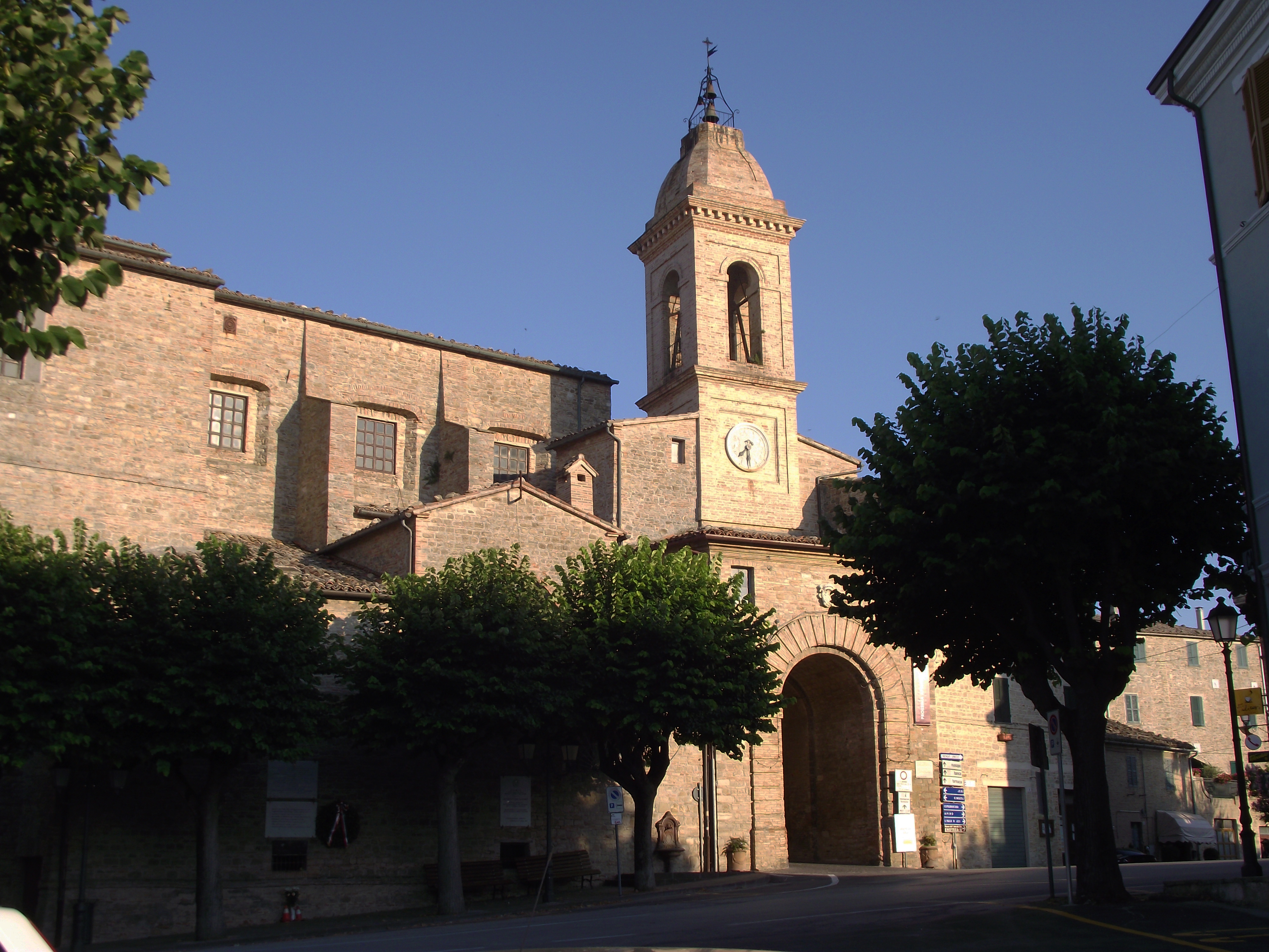 Staffolo, Italy